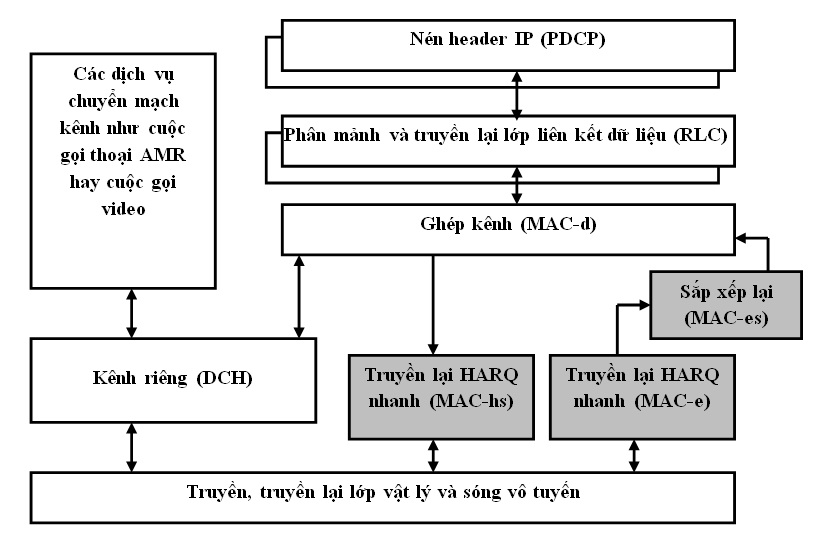 Kiến trúc giao tiếp vô tuyến HSDPA và HSUPA cho dữ liệu người dùng